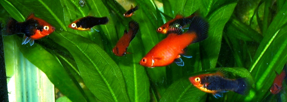 Southern Platyfish (Xiphophorus maculatus, Günther 1866) in aqarium. The colour variation with red body and black fin rays is called wagtail, or sometimes red wagtail. (There is also a yellow wagtail, with yellow body and black fin rays.) The variation with a predominantly black-coloured body is called tuxedo.